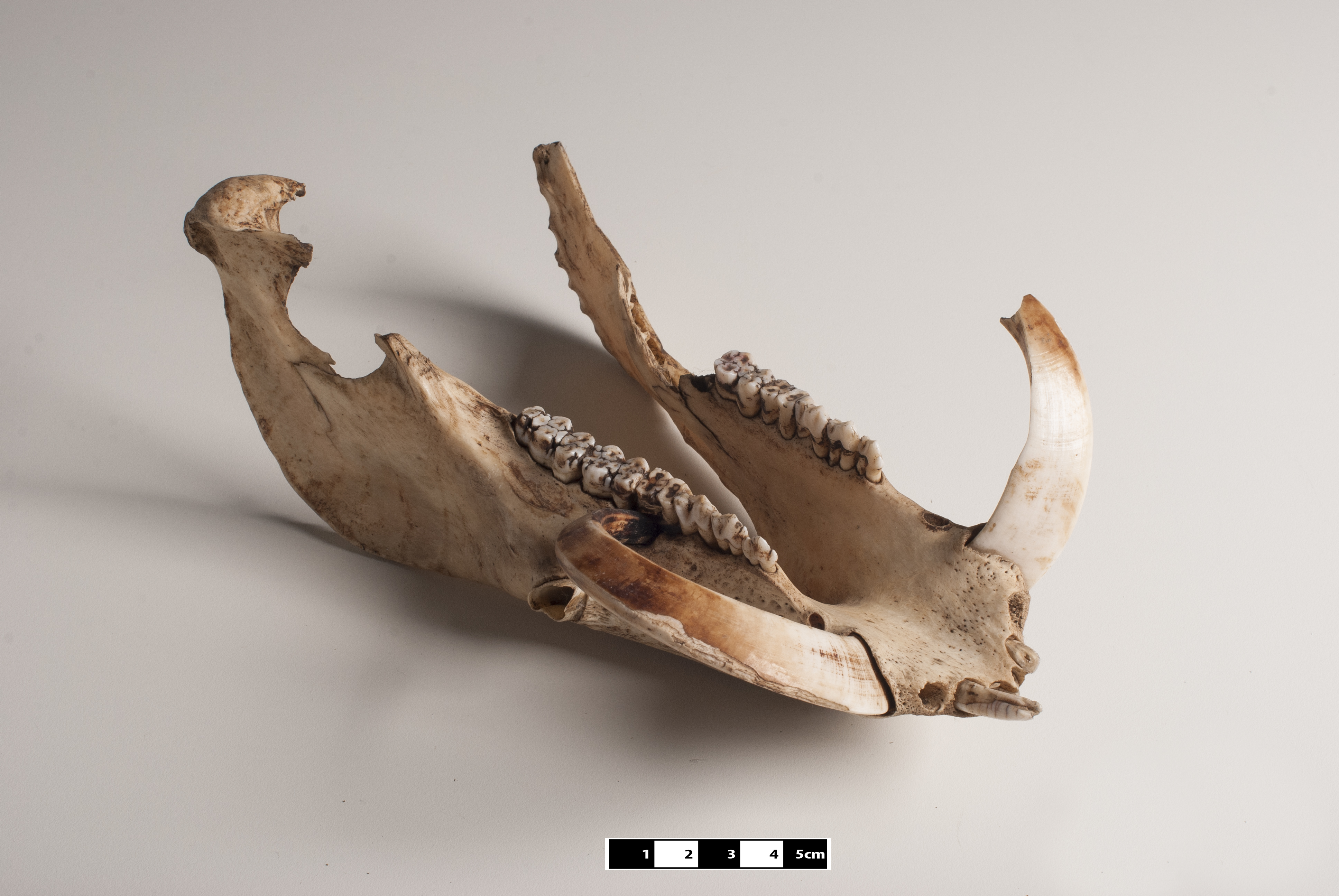 Specimen of wild boar jaw prepared by the bone maceration technique and on display at the Museum of Veterinary Anatomy, FMVZ USP. This file was published as the result of a partnership between the Museum of Veterinary Anatomy FMVZ USP, the RIDC NeuroMat and the Wikimedia Community User Group Brasil. This GLAM project is reported.